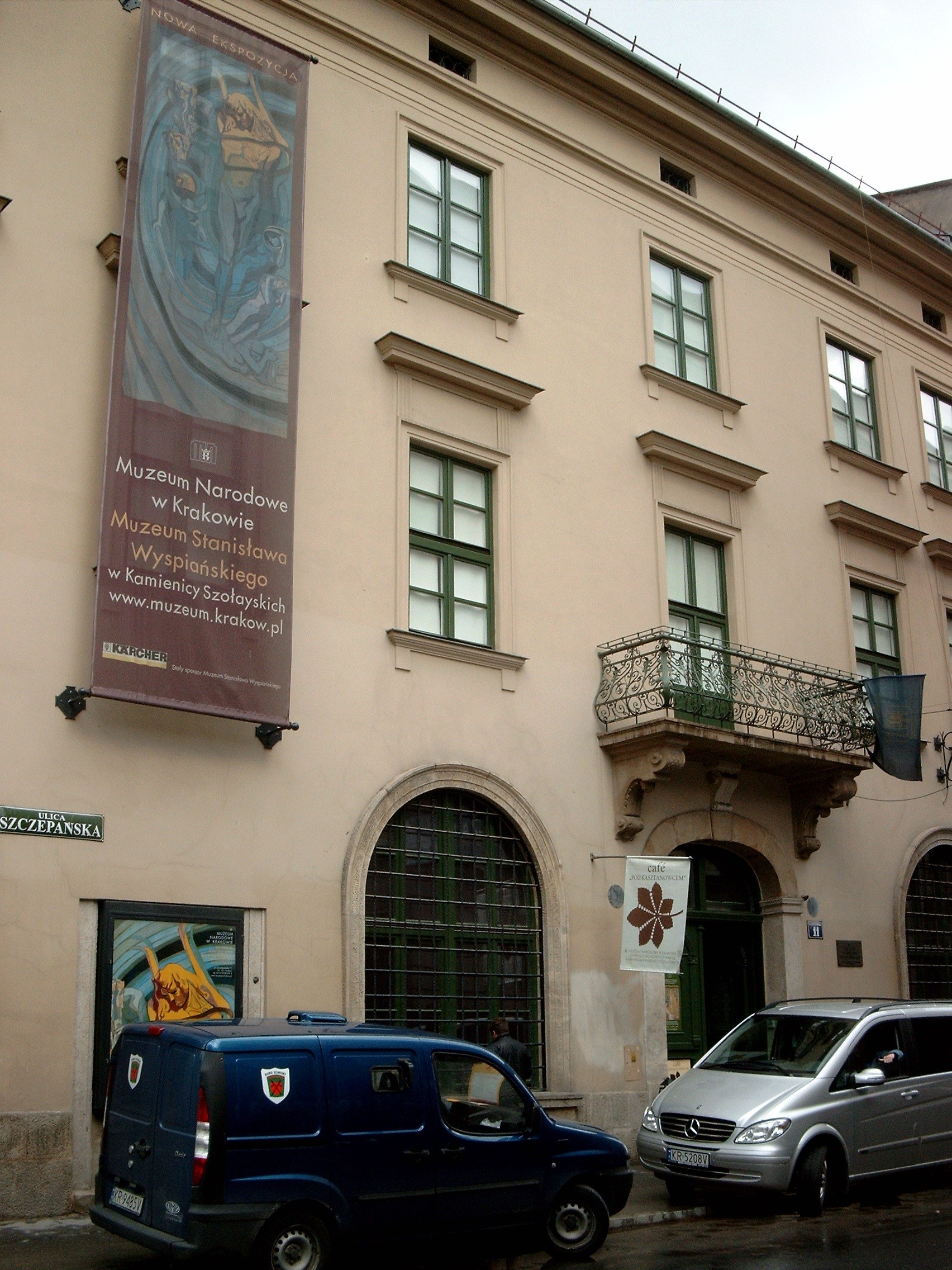 Stanislaw Wyspianski's Museum, Kraków (Cracow), Poland